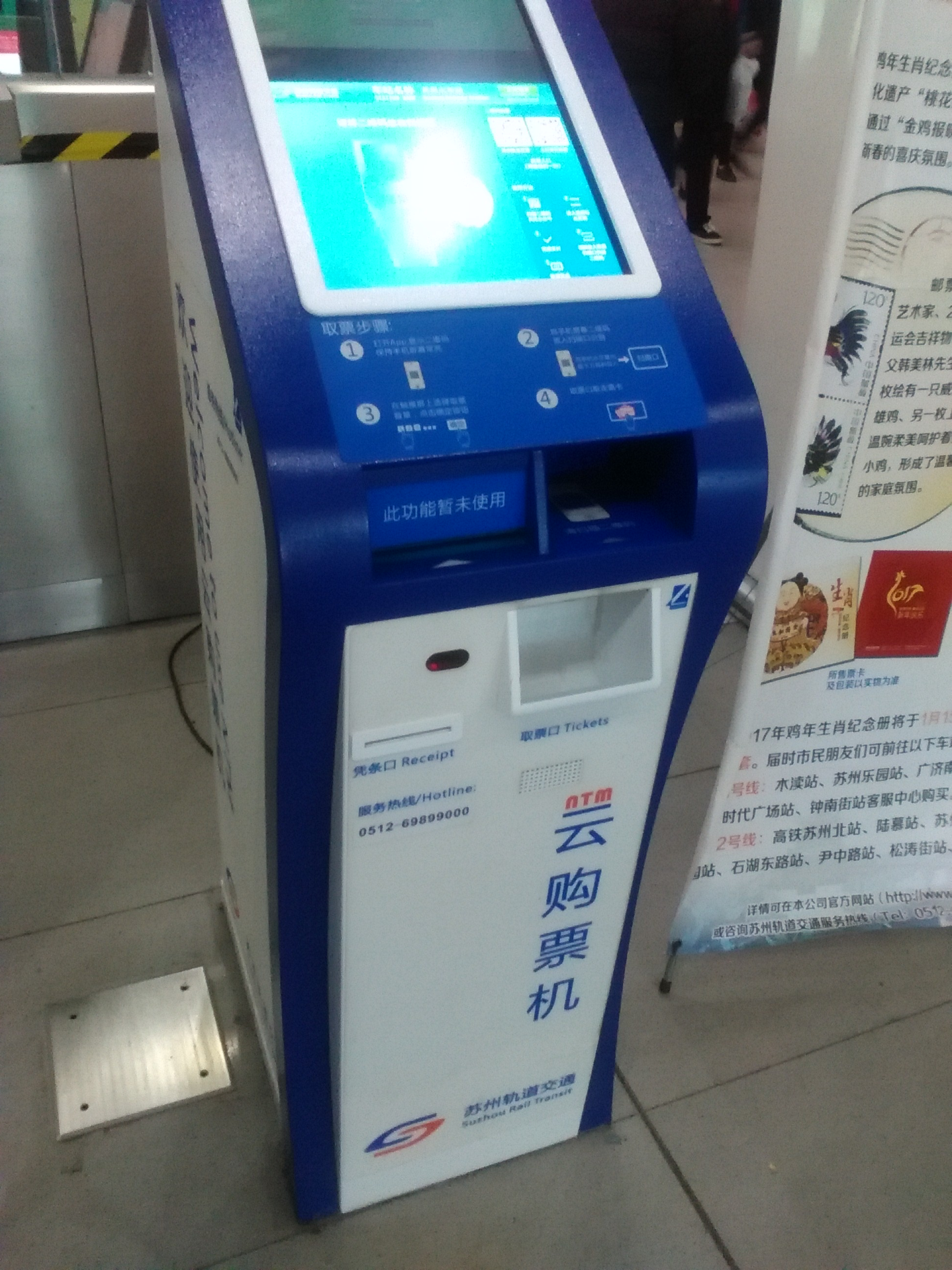 Cloud TVM of Suzhou Rail Transit 中文（中国大陆）: 苏州轨道交通云购票机